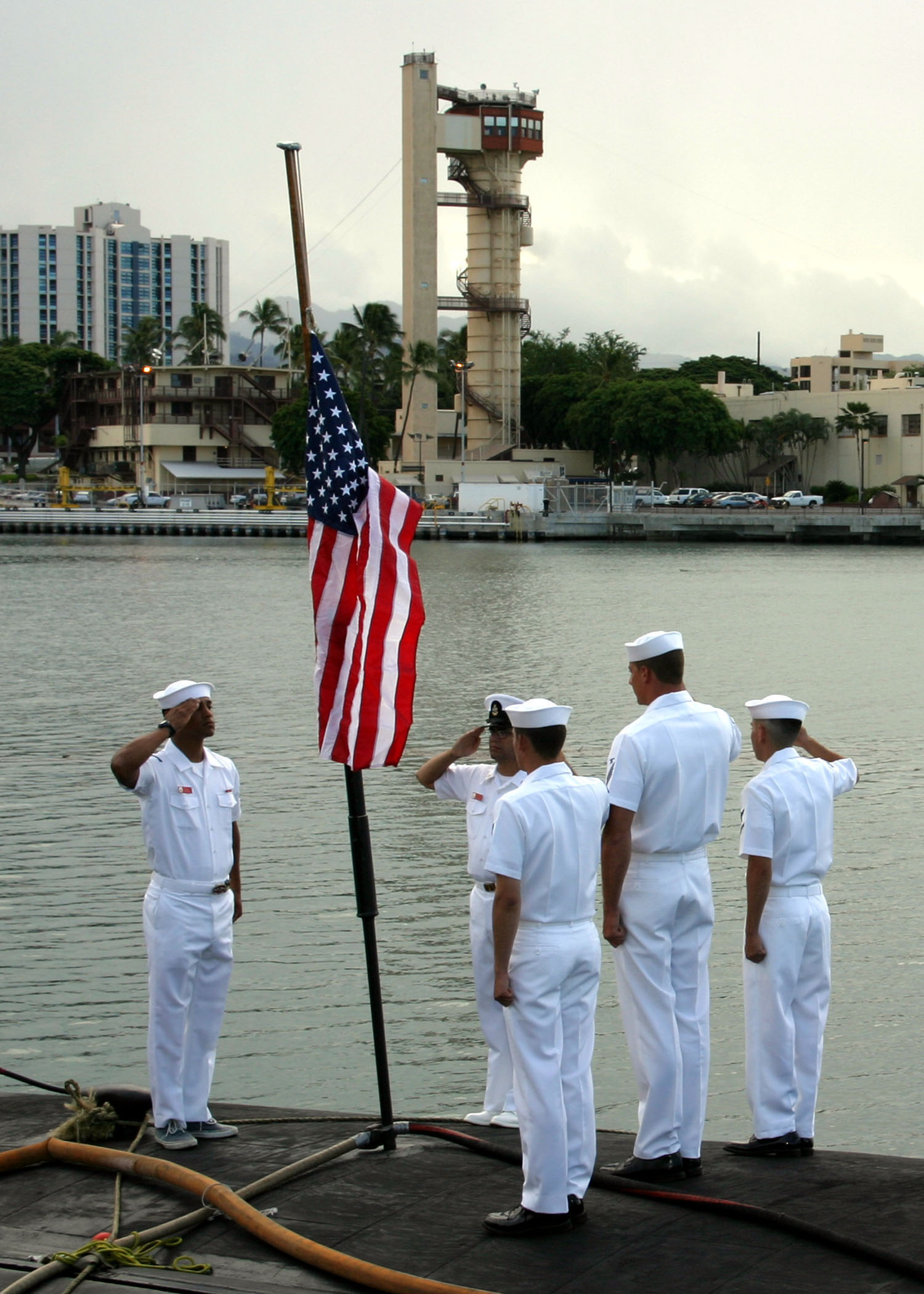 Pearl Harbor, Hawaii (Sept. 11, 2003) – Hawaii-based Sailors assigned to the attack submarine USS Chicago (SSN 721) observe morning colors at half-mast on Sept. 11, 2003, with a flag sent from the New York City Fire Department. The flag was sent to the city of Chicago, and in turn was presented to the crew of USS Chicago. The crew hoisted the flag in memory of the men and women who died on September 11, and to pay homage to the brave men and women that fought and died at Pearl Harbor. U.S. Navy photo by Chief Journalist David Rush. (RELEASED)